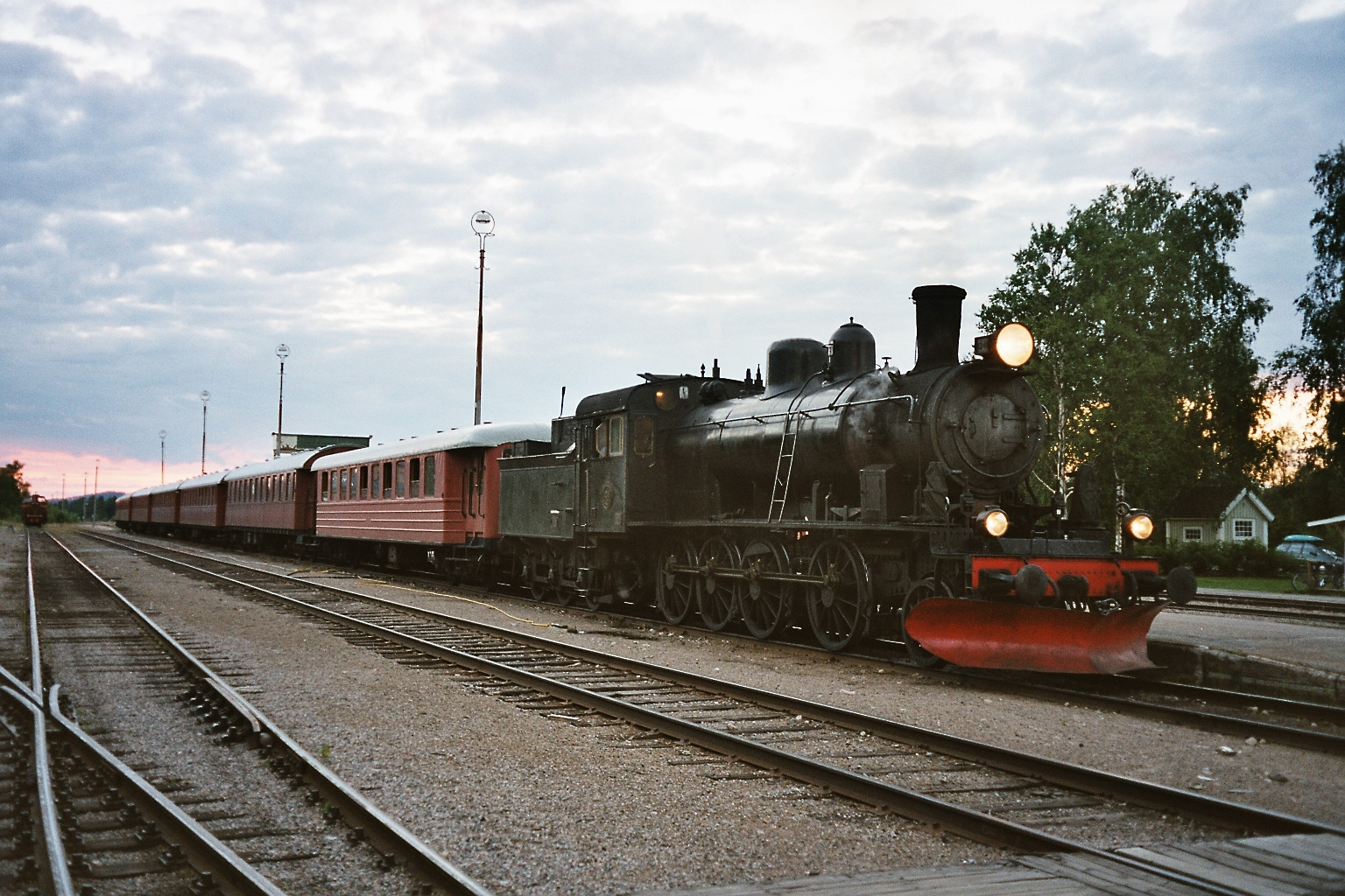 Steam locomotive of Arvidsjaurs Järnvägsförening on Inlandsbanan in Arvidsjaur.